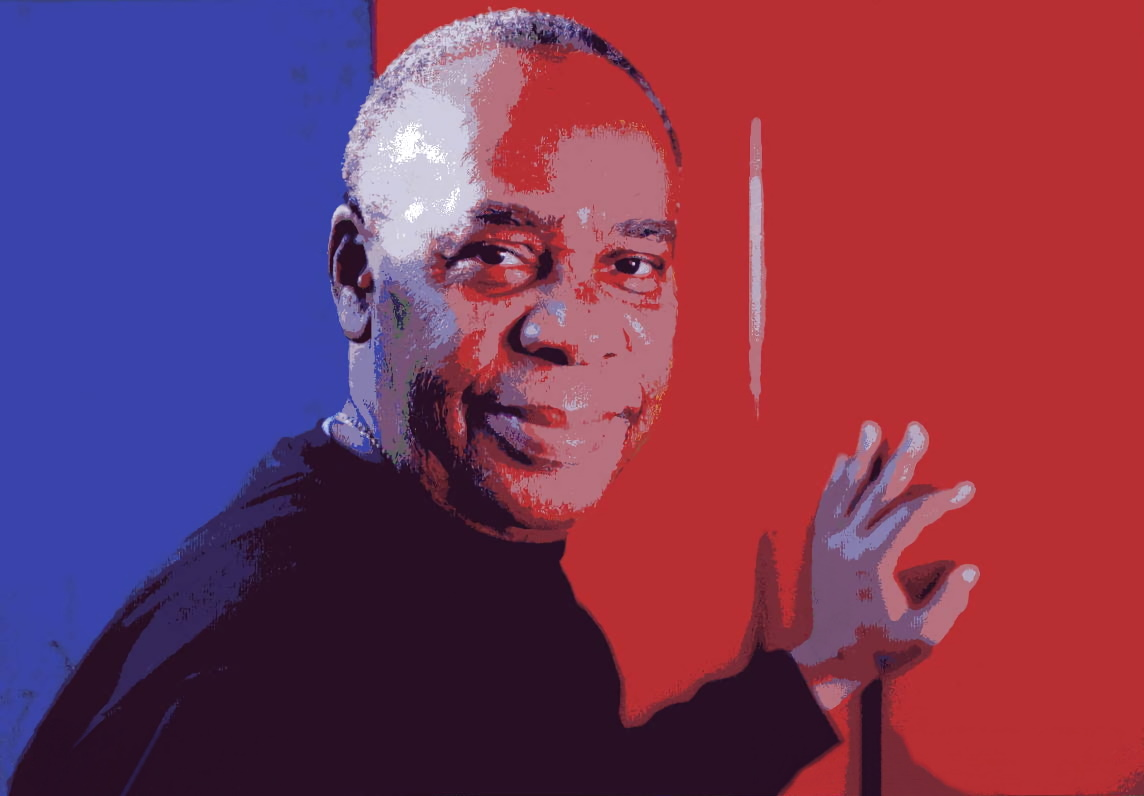 Image of B.B. Seaton